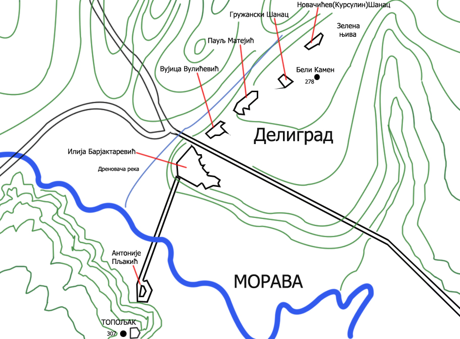 The position of earth and palisade fortress complex at Deligrad during First Serbian uprising from 1806 to 1813